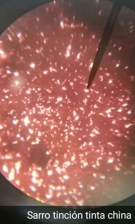 Muestra de sarro con tinción de tinta china, se observa las cápsulas. Microscopio con lente 40x, en el laboratorio de biología celular de la Universidad de las Fuerzas Armandas ESPE